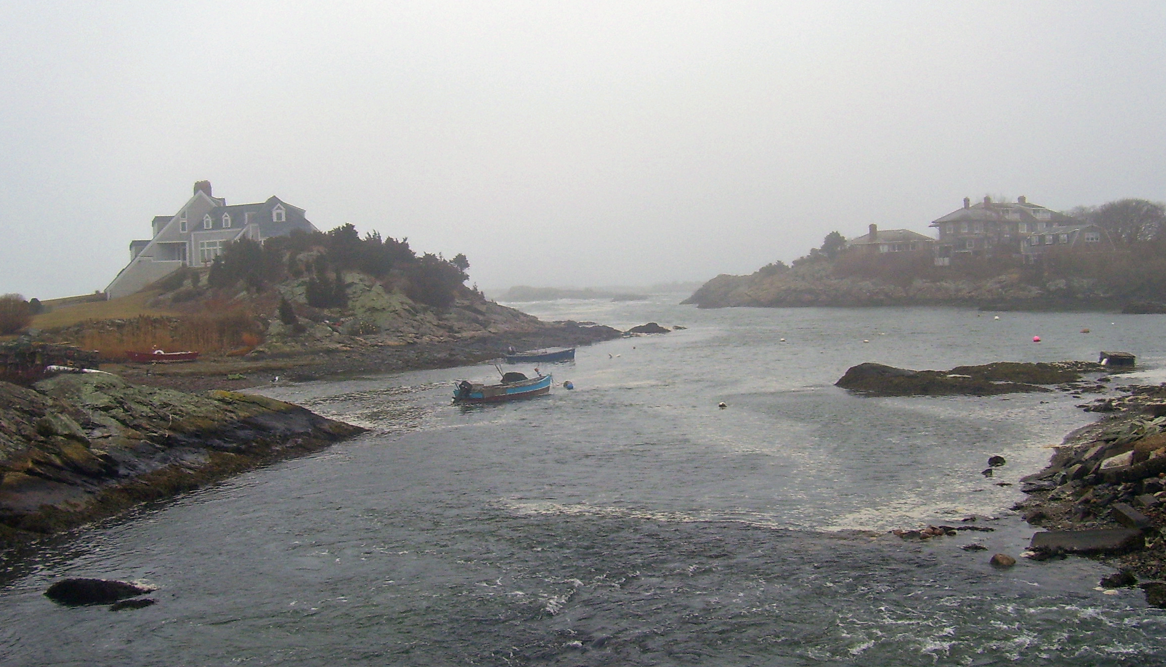 View from Ocean Drive Historic District, a U.S. National Historic Landmark District in Newport, RI, USA